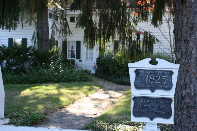 National Register of Historic Place, Wilbur Cahoon House, ca 1825, Avon, Lorain County, Ohio